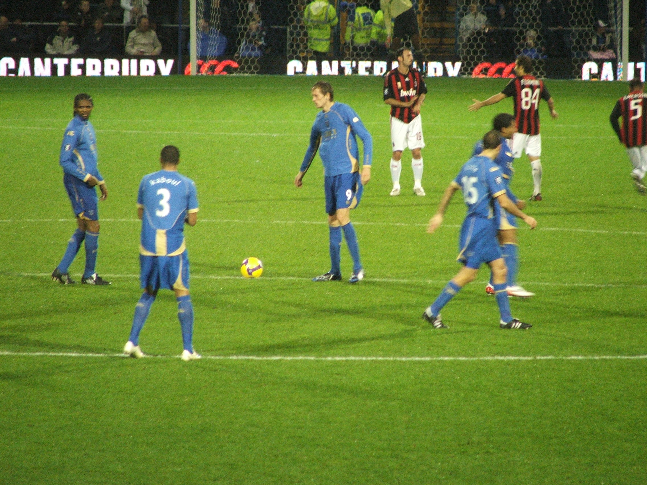 kaboul, Kanu, Little, Crouch, Johnson